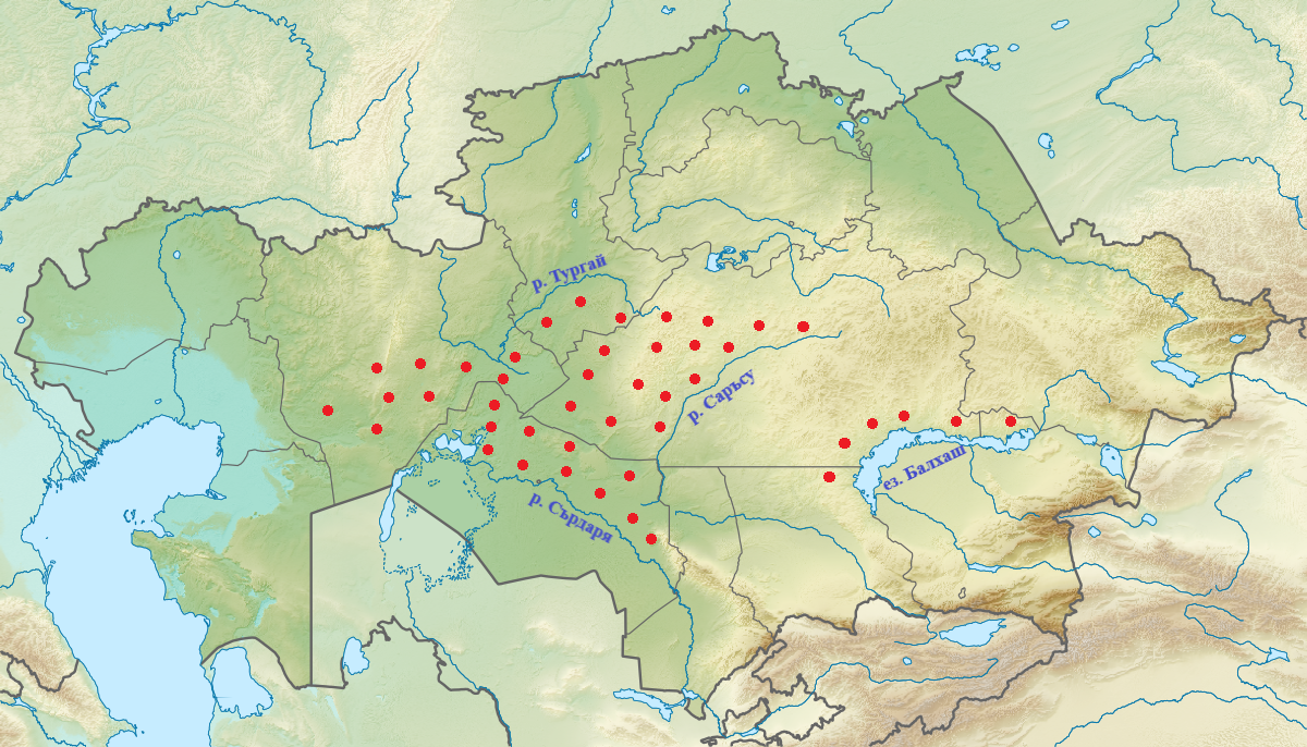 Oghuz Tribes at the first half of the X century A.D.